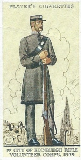 Uniform of the Queen's Edinburgh Rifles, raised in 1859